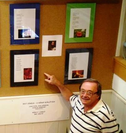 László Róna J. Hungarian poet.